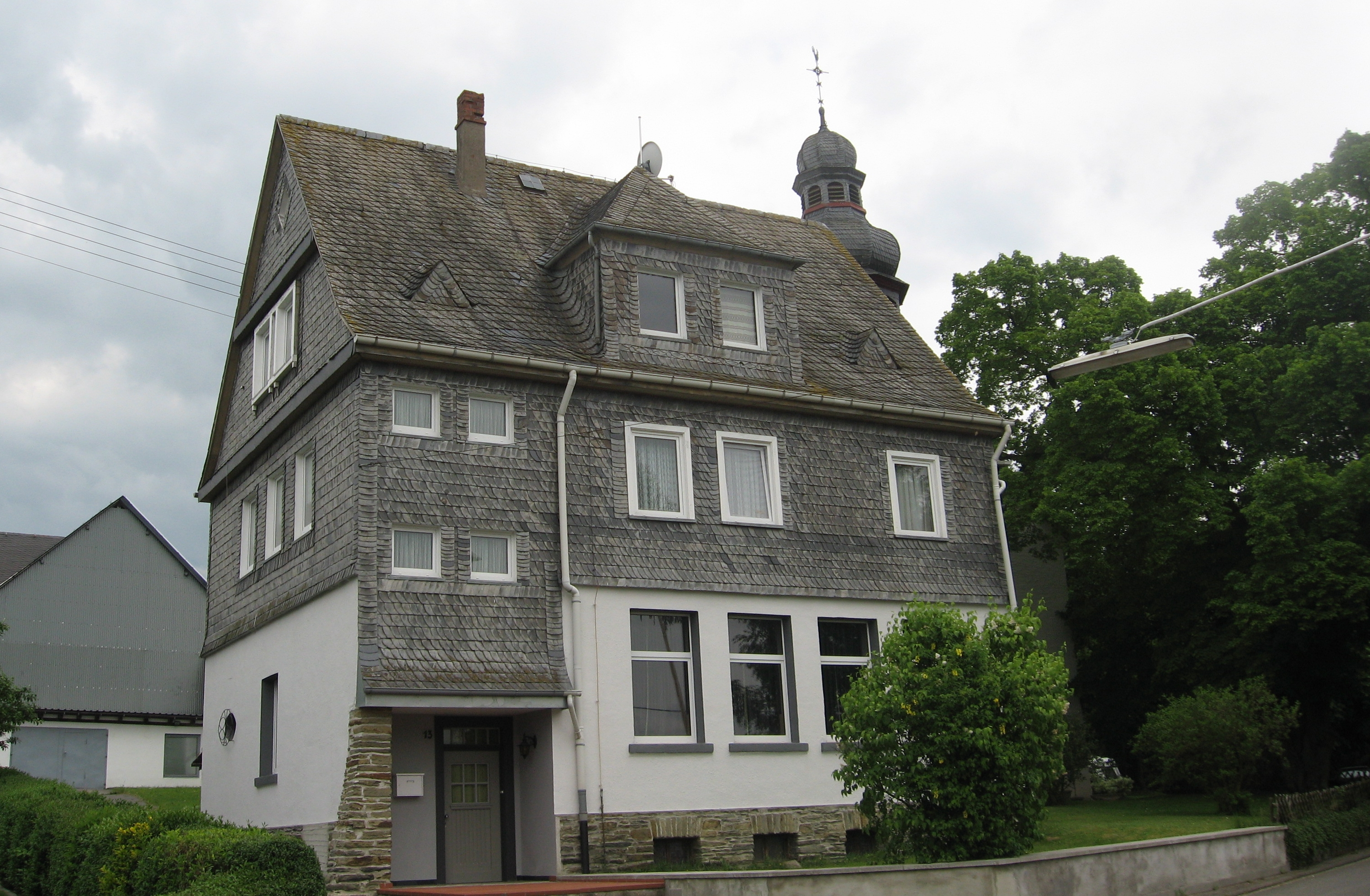 Village Altweidelbach in the Hunsrück landscape.